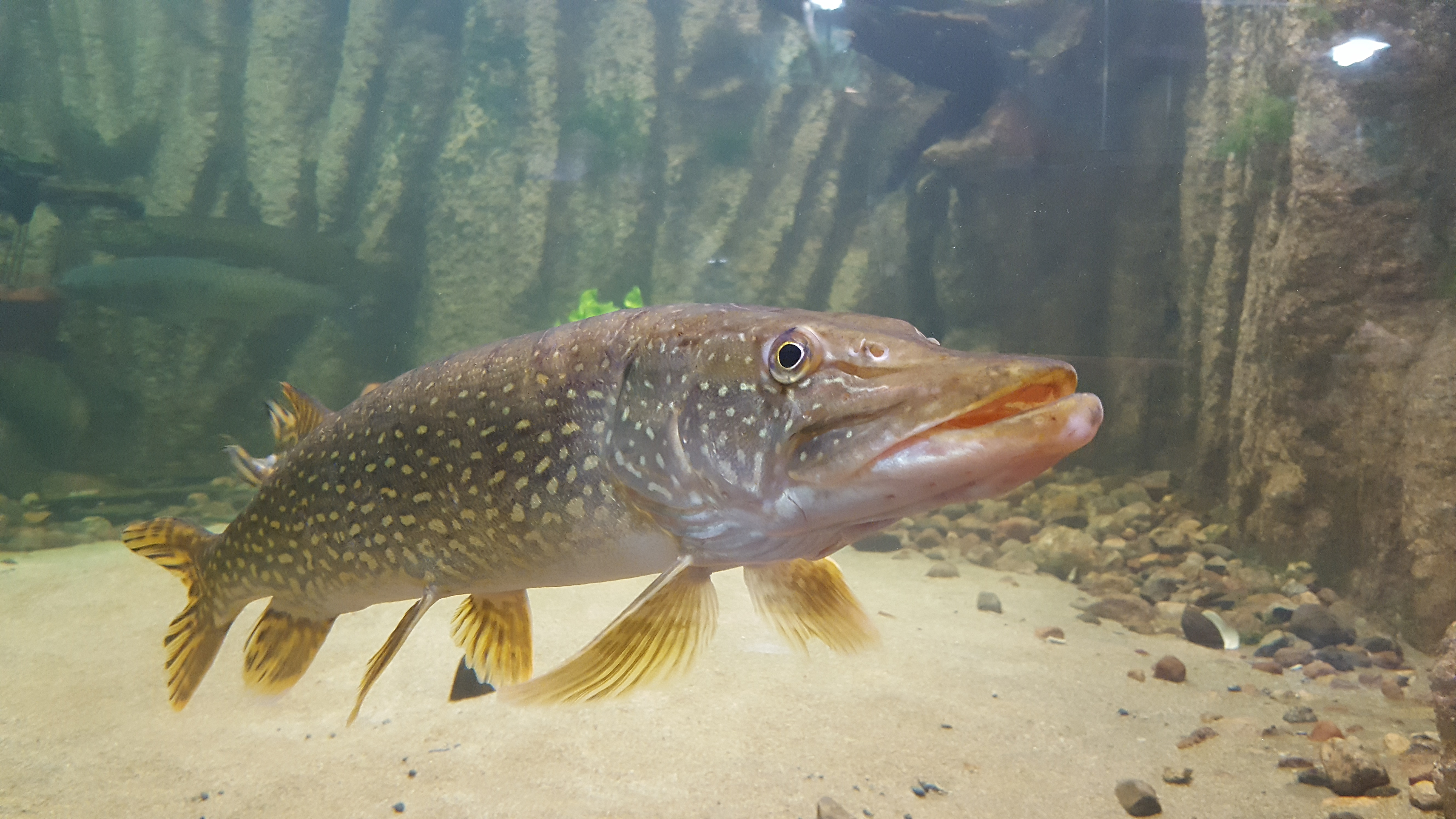 Esox Lucius at Bydgoszcz Zoo